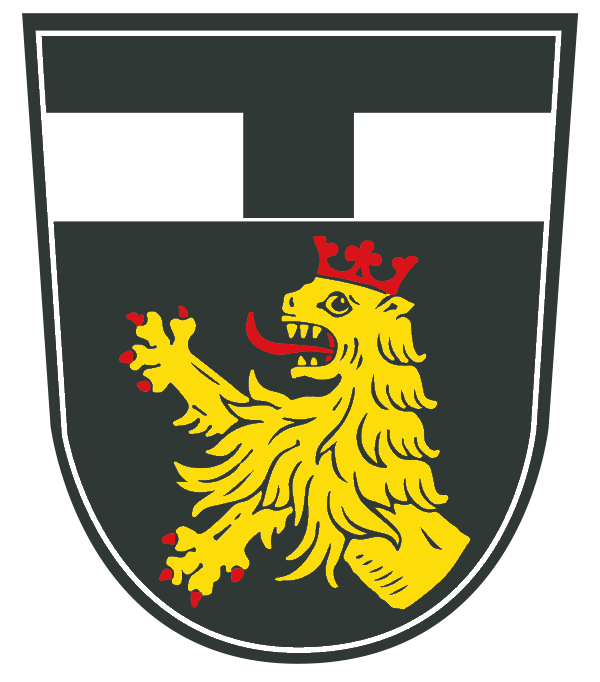 Coat of arms of Oberdolling